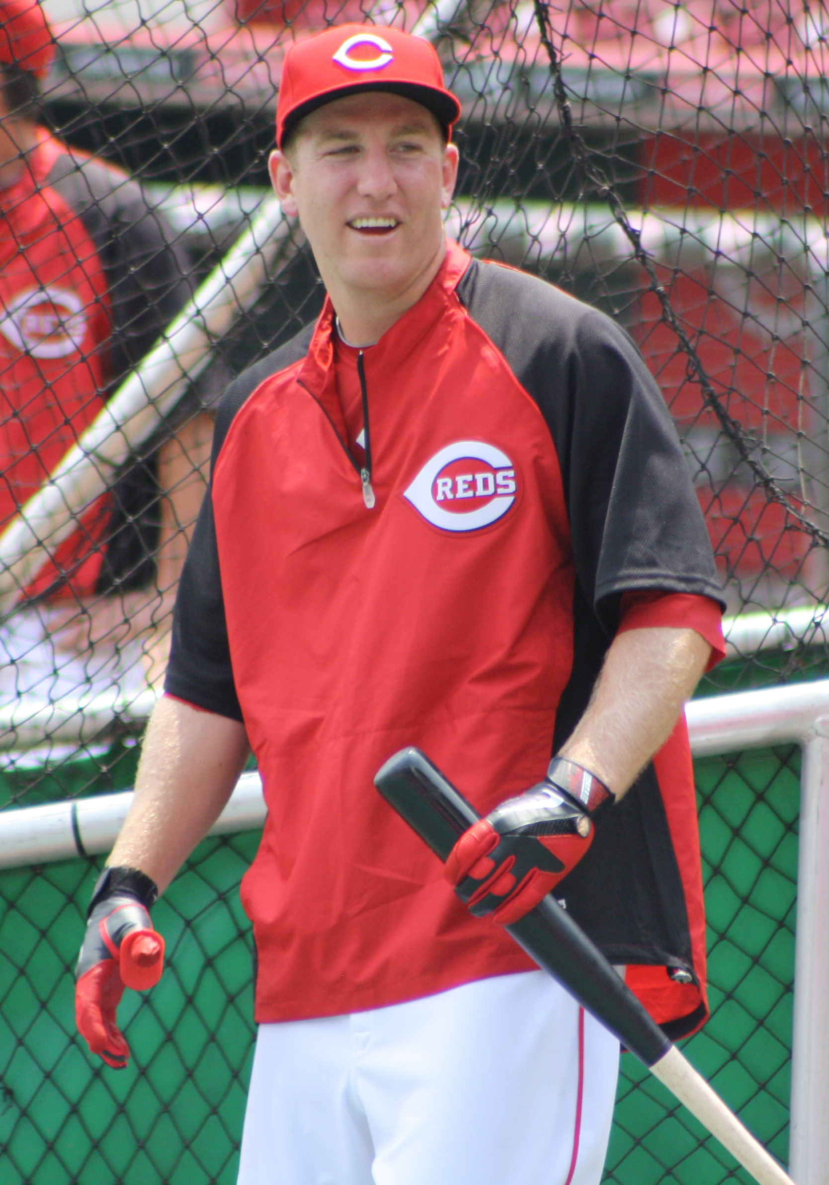 Cincinnati Reds player Todd Frazier – July 23rd, 2011